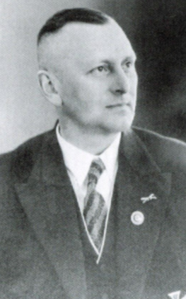 Lord Mayor Dr. Wilhelm Sievers (NSDAP) from Brandenburg an der Havel.